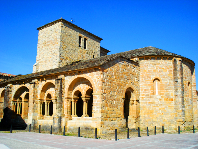 Church of Nuestra Señora de la Purificación de Gazolaz in Navarre (Spain).